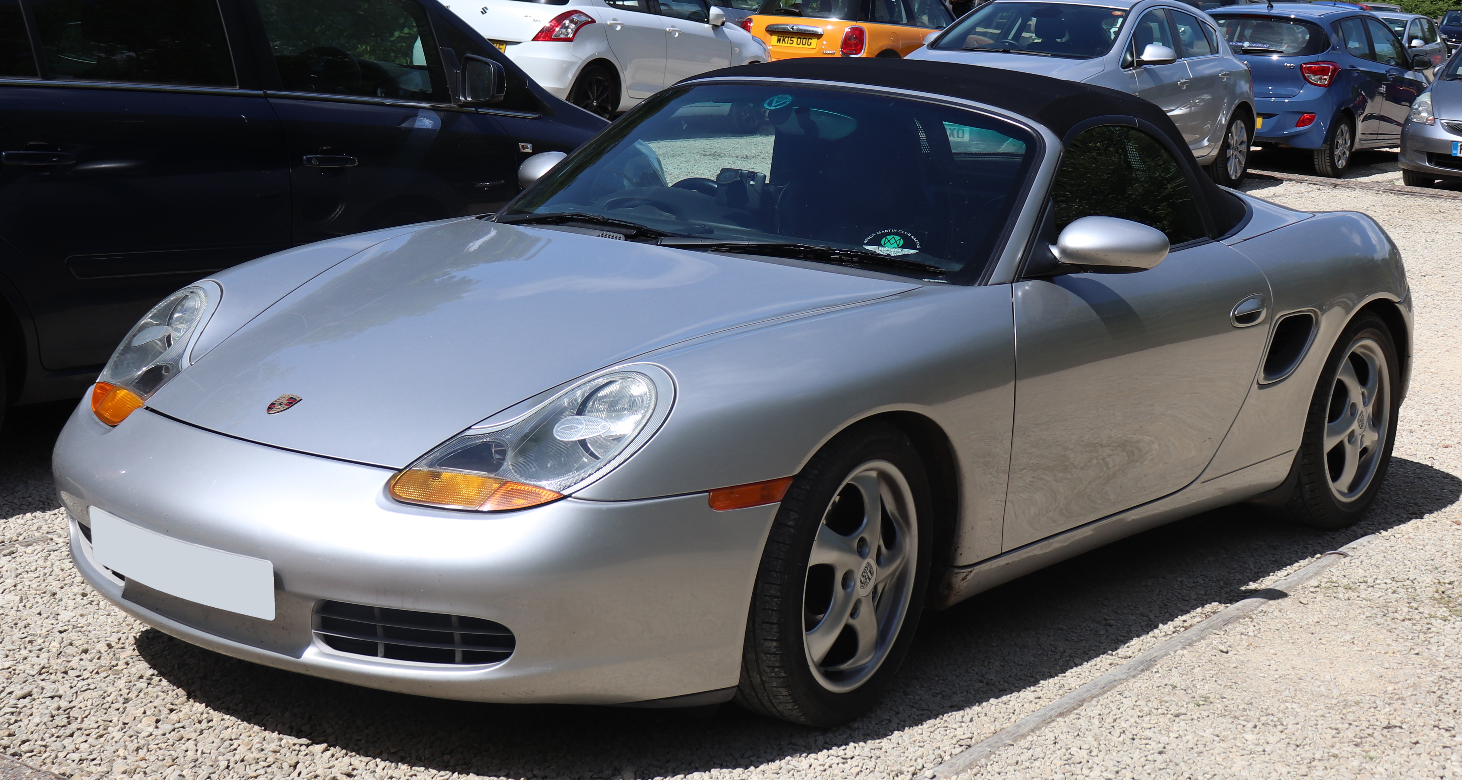 1999 Porsche Boxster 2.5 Front Taken at Snowshill Manor, Snowshill